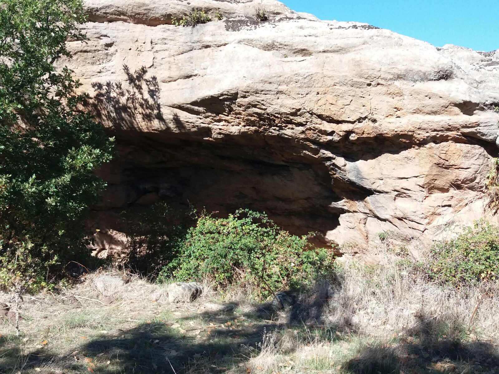 Cave with Neolithic paintings. Abrigo de la Dehesa. Miño de Medinaceli. Soria. Spain.